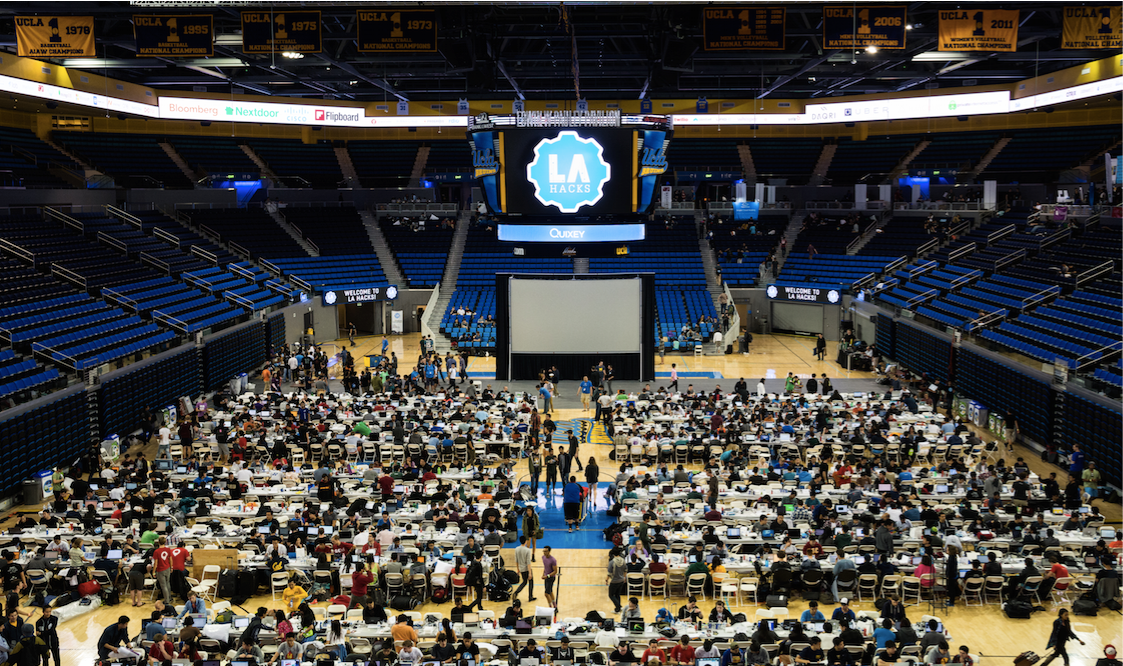 LA Hacks